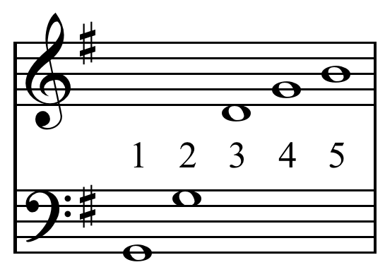 Harmonic series on G, partials 1-5 numbered.